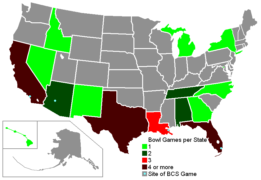 derived from Image:BlankMap-USA-states.PNG; map of states with 2012-13 NCAA football bowl games schools (and their division)